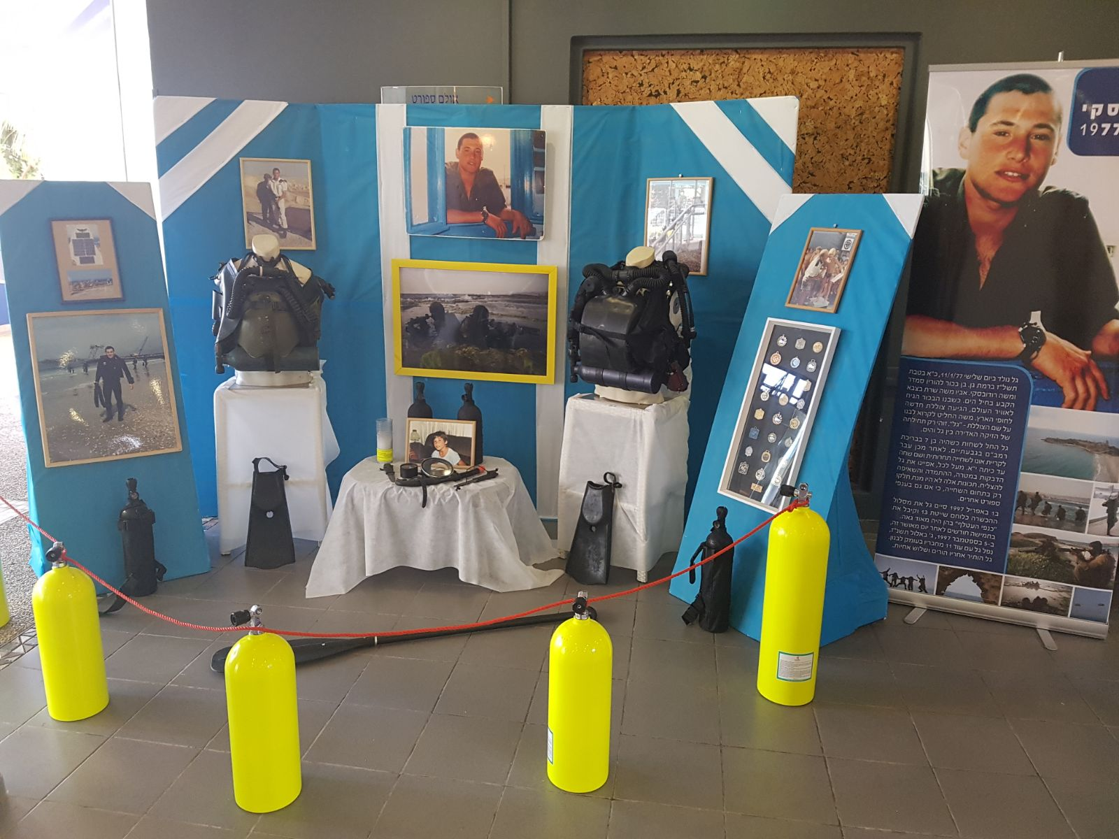 The Gal Rudovsky Swimming Competition. Memorial corner